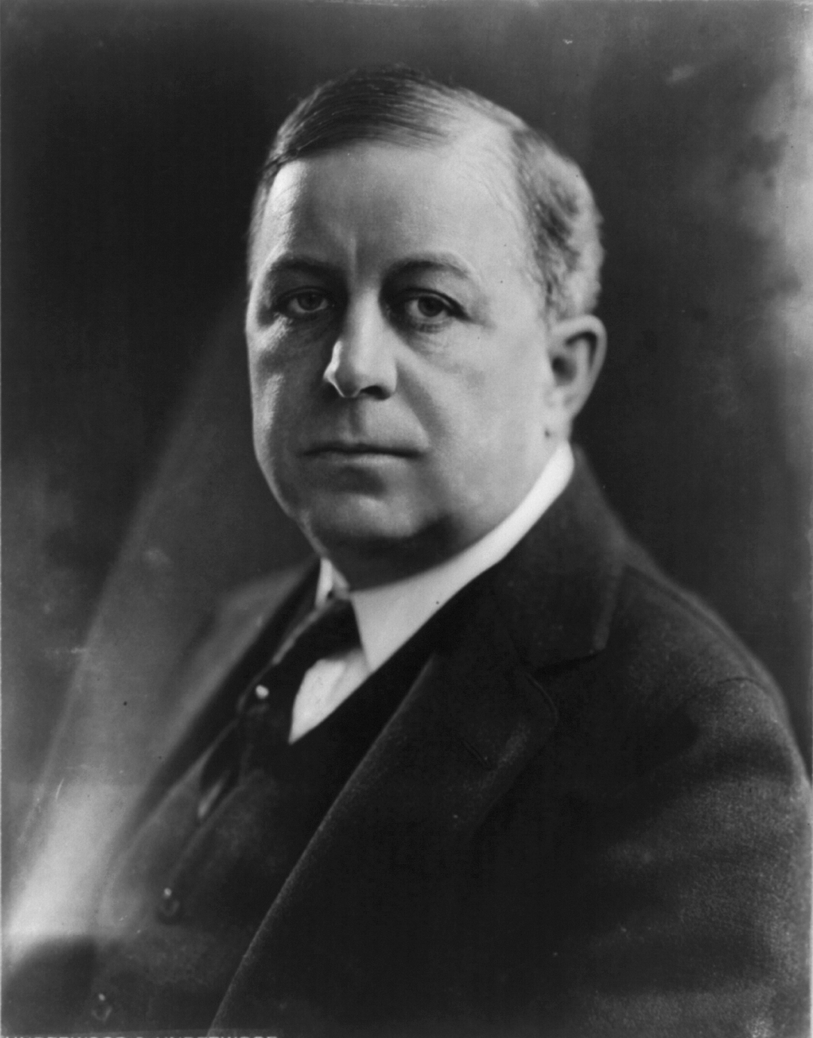 Charles Beecher Warren (1870–1936), an American diplomat and politician.